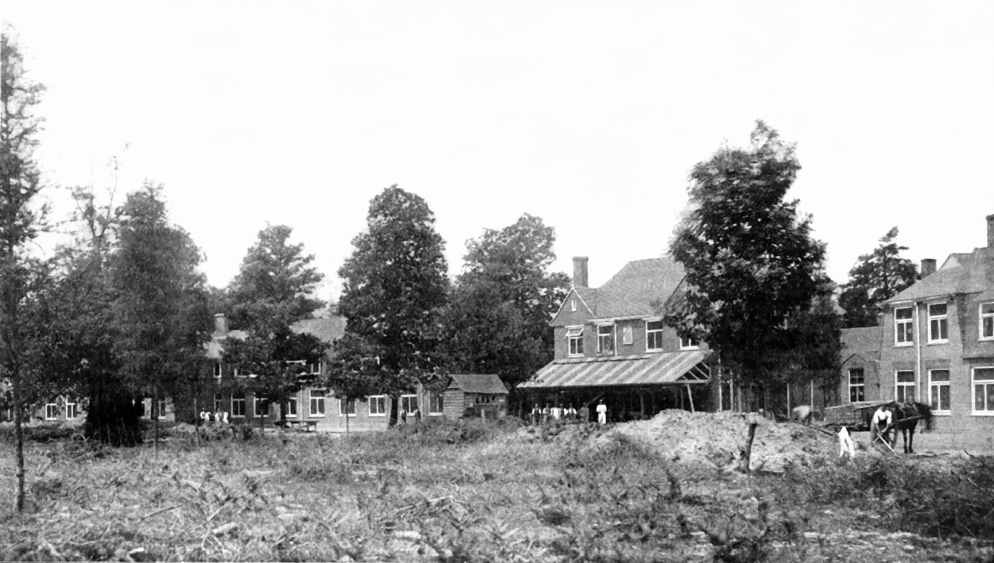 Pinewood Sanatorium, BMJ, 1901, p. 153